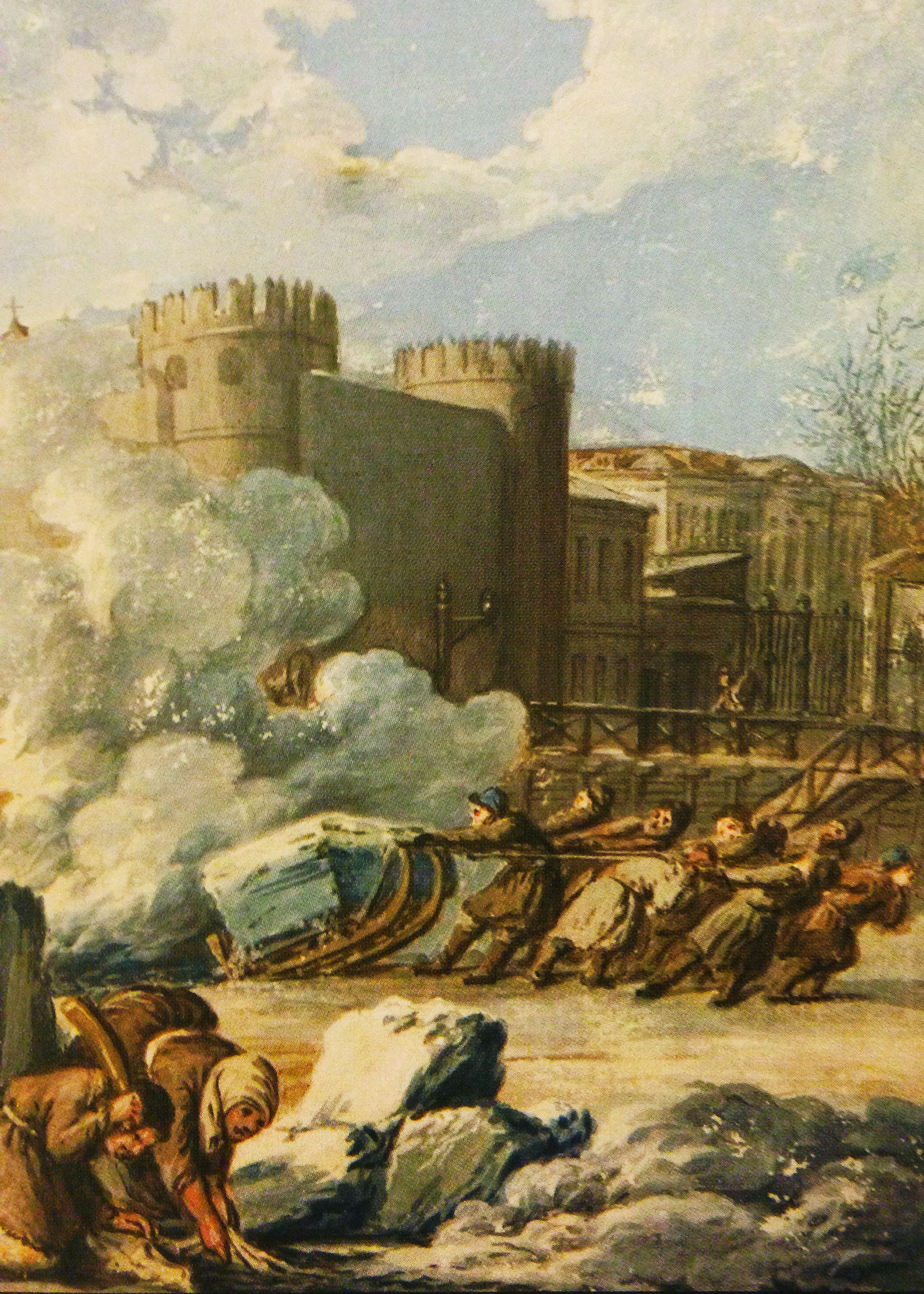 F. Knappe. Prison Castle close to Moyka River. 1798